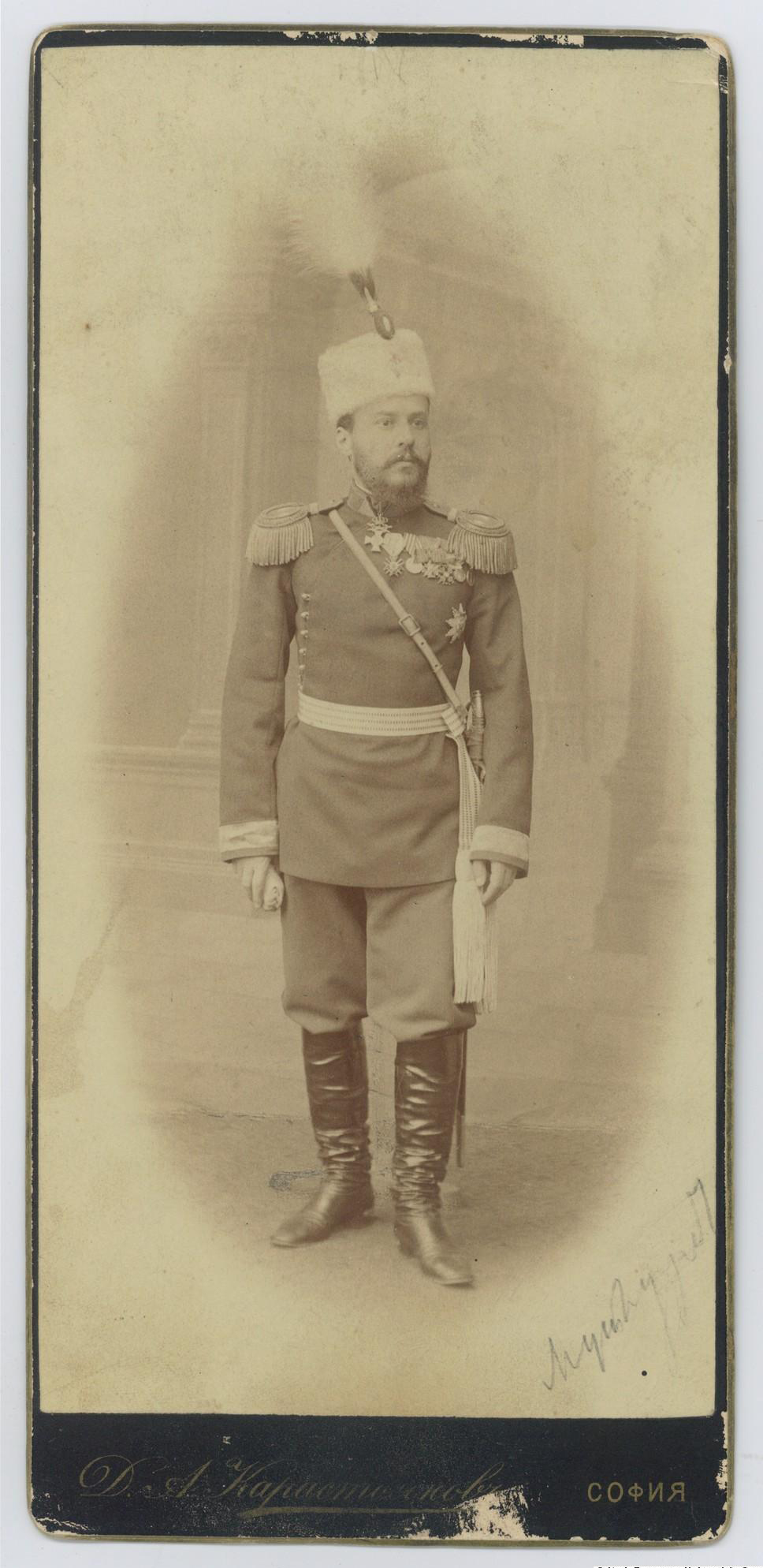 Sava Mutkuriov in 1886/1887